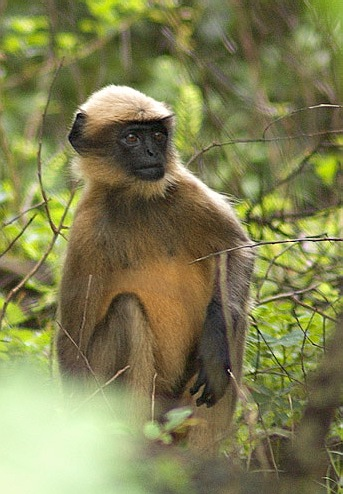 By Dhaval Momaya at Fort Cabo de Rama, Goa, in August 2005.